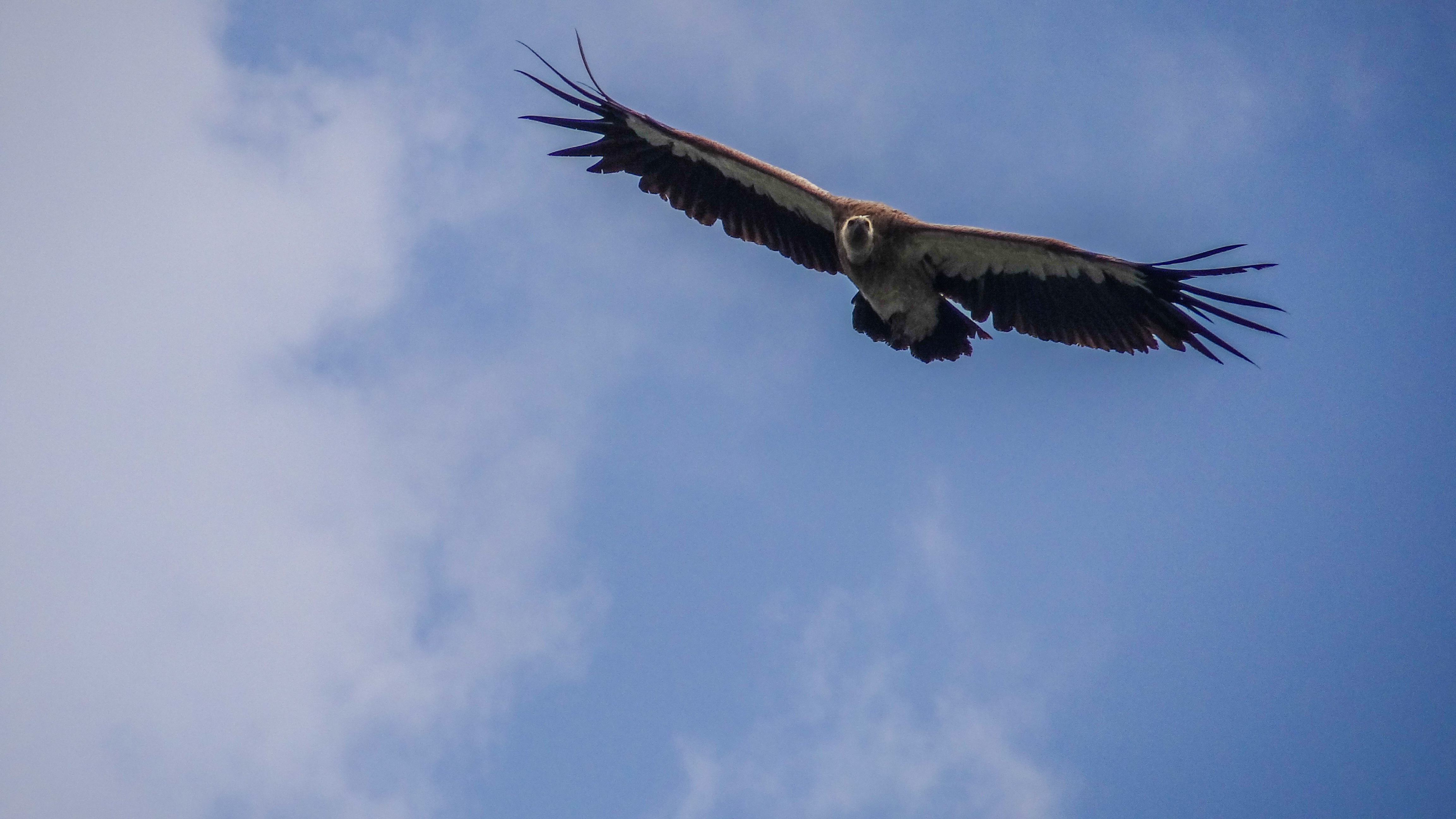 Himalayan Vulture spotted in the Dhauladhars